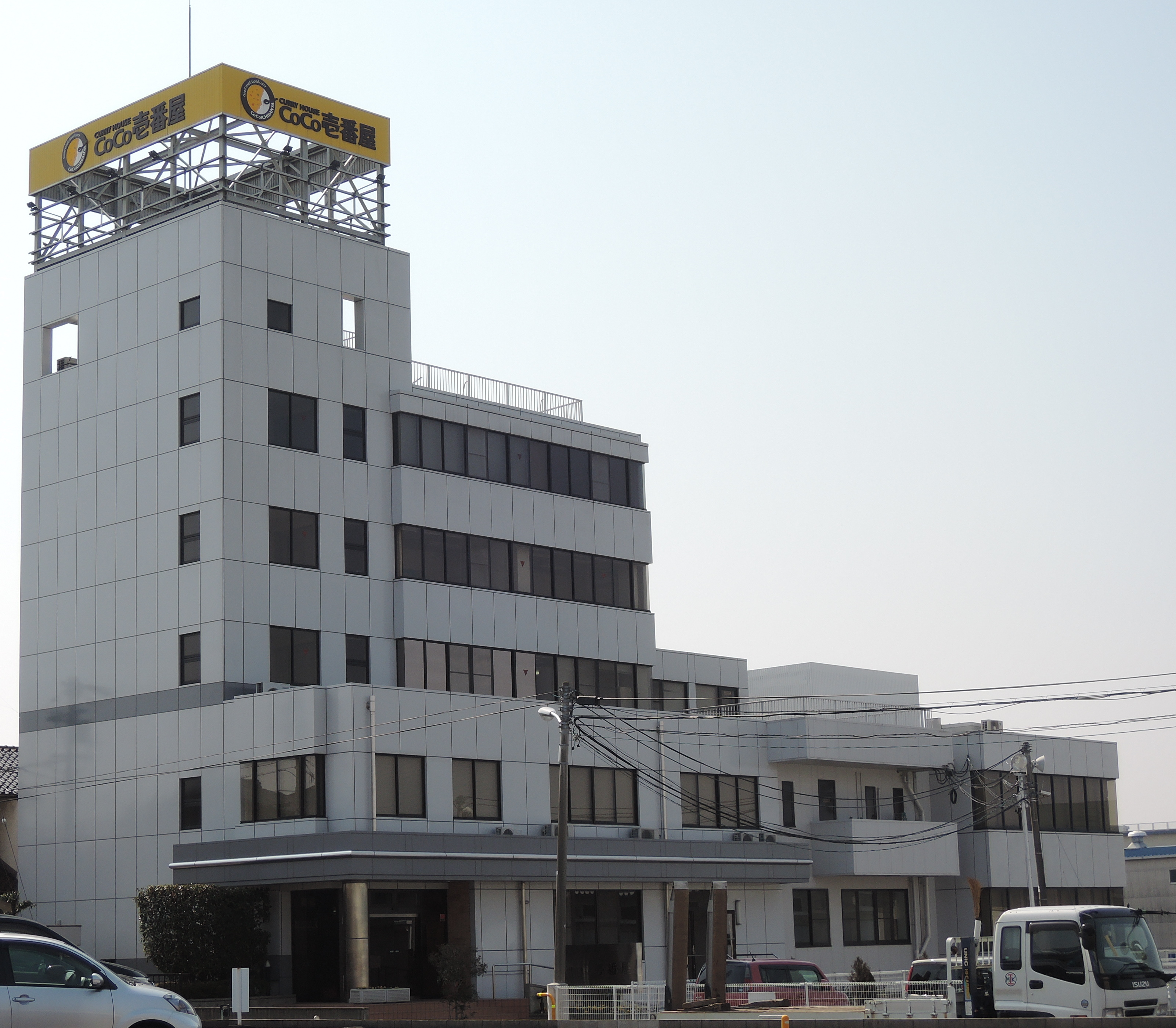 Headquarters of ICHIBANYA CO., LTD.,Aichi prefecture,Japan